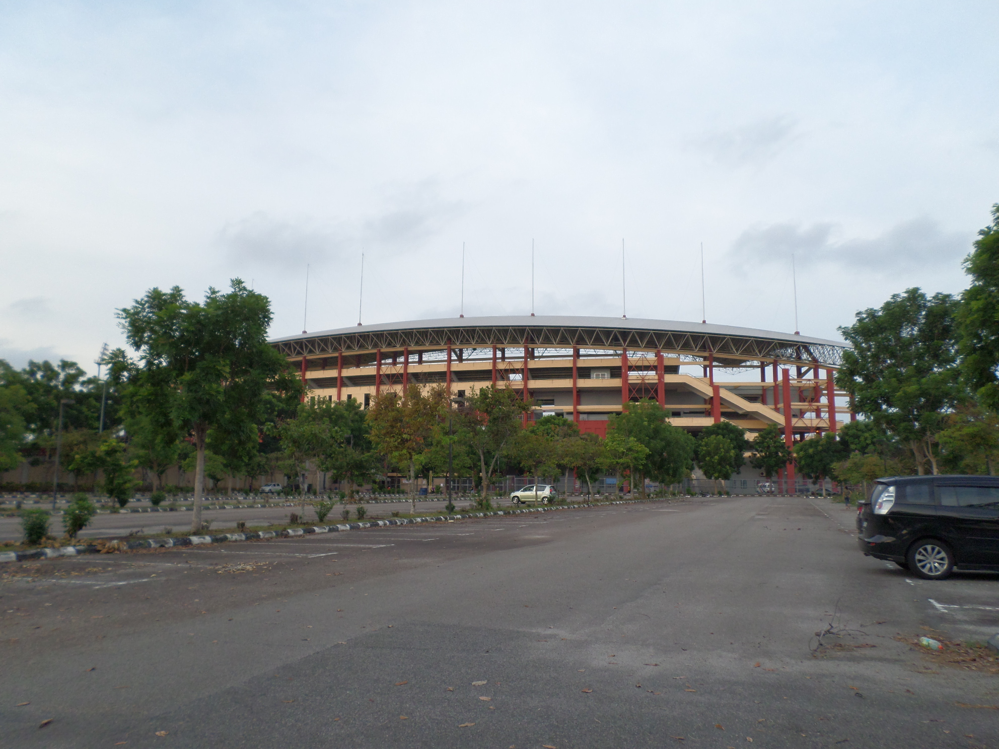 Hang Jebat Stadium, Krubong, Malacca, MalaysiaBahasa Melayu: Stadium Hang Jebat, Krubong, Melaka, Malaysia